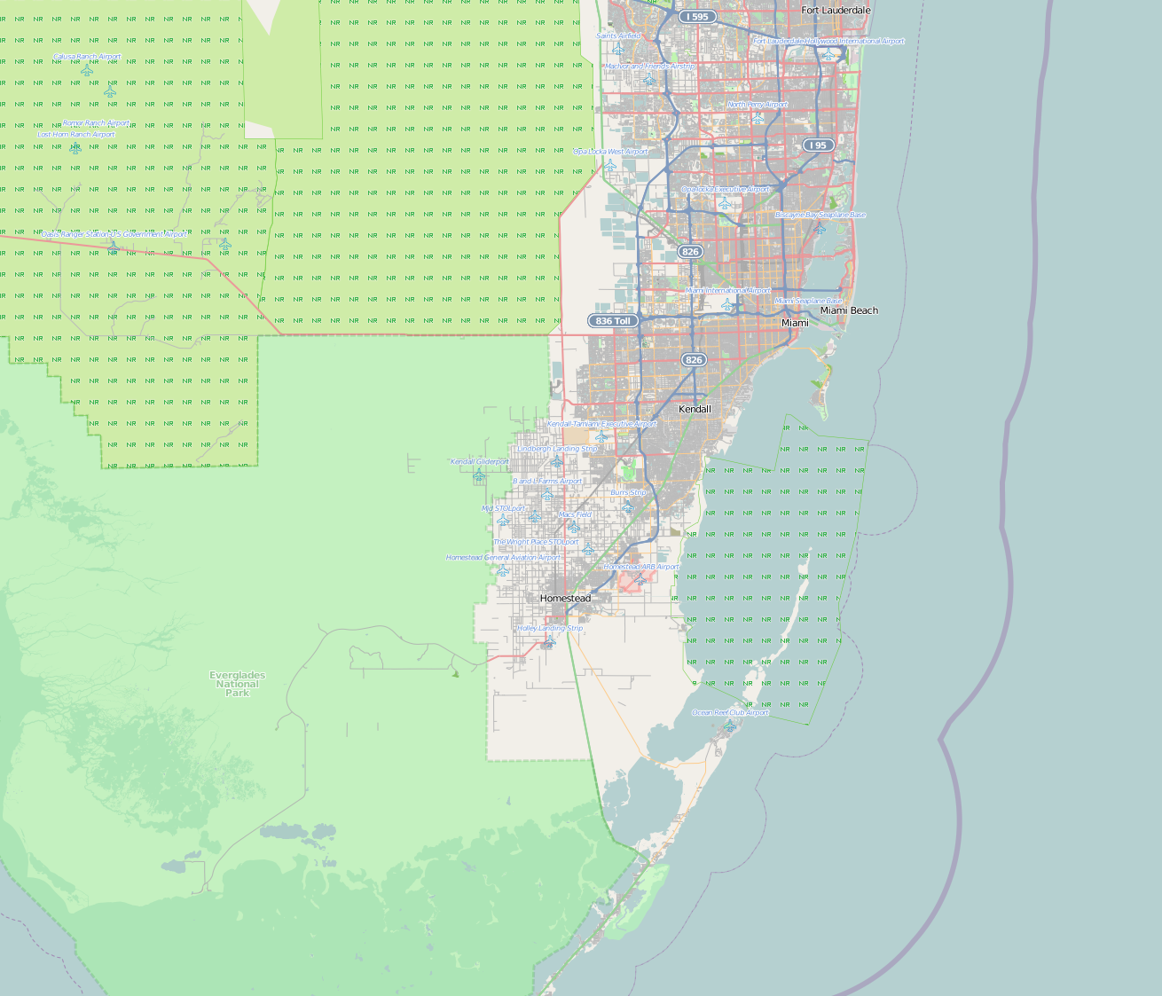 This map of Miami-Dade County was created from OpenStreetMap project data, collected by the community. This map may be incomplete, and may contain errors. Don't rely solely on it for navigation.